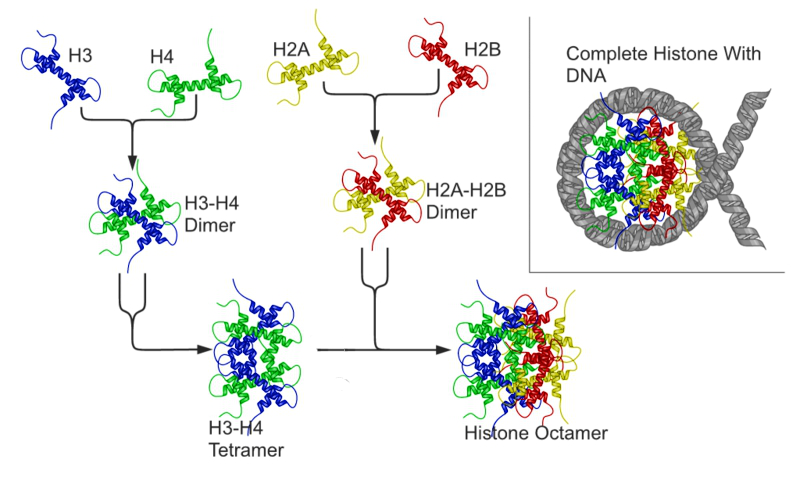 Schematic representation of the assembly of the core histones into the nucleosome